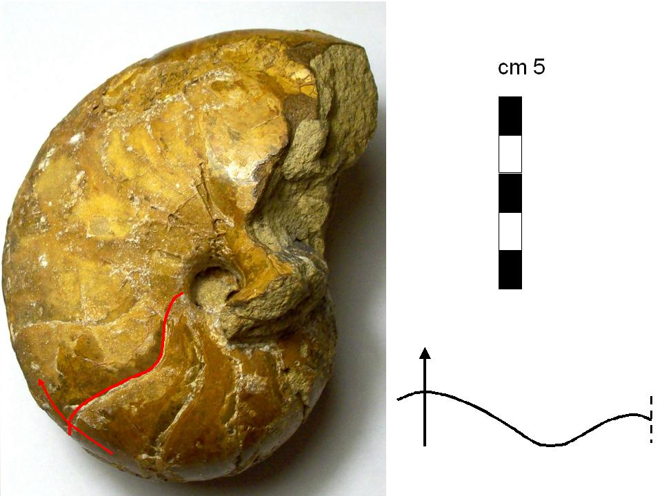 example of sutural pattern visible on an internal mold of nautiloid phragmocone of Cymatoceras from Albian of Madagascar